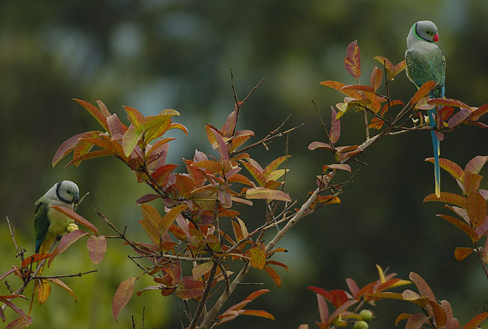 Malabar parakeet. Aka Blue-winged Parakeet from Bhadra Tiger Reserver